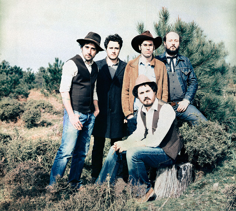 Photo by Luis Diaz Diaz (